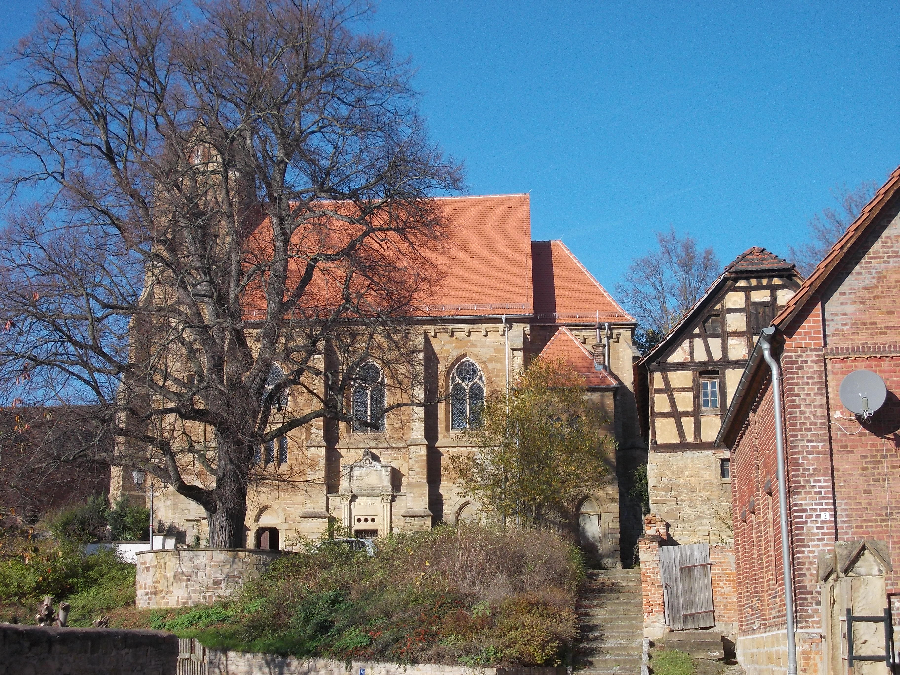 Gladitz church (Kretzschau, district: Burgenlandkreis, Saxony-Anhalt)